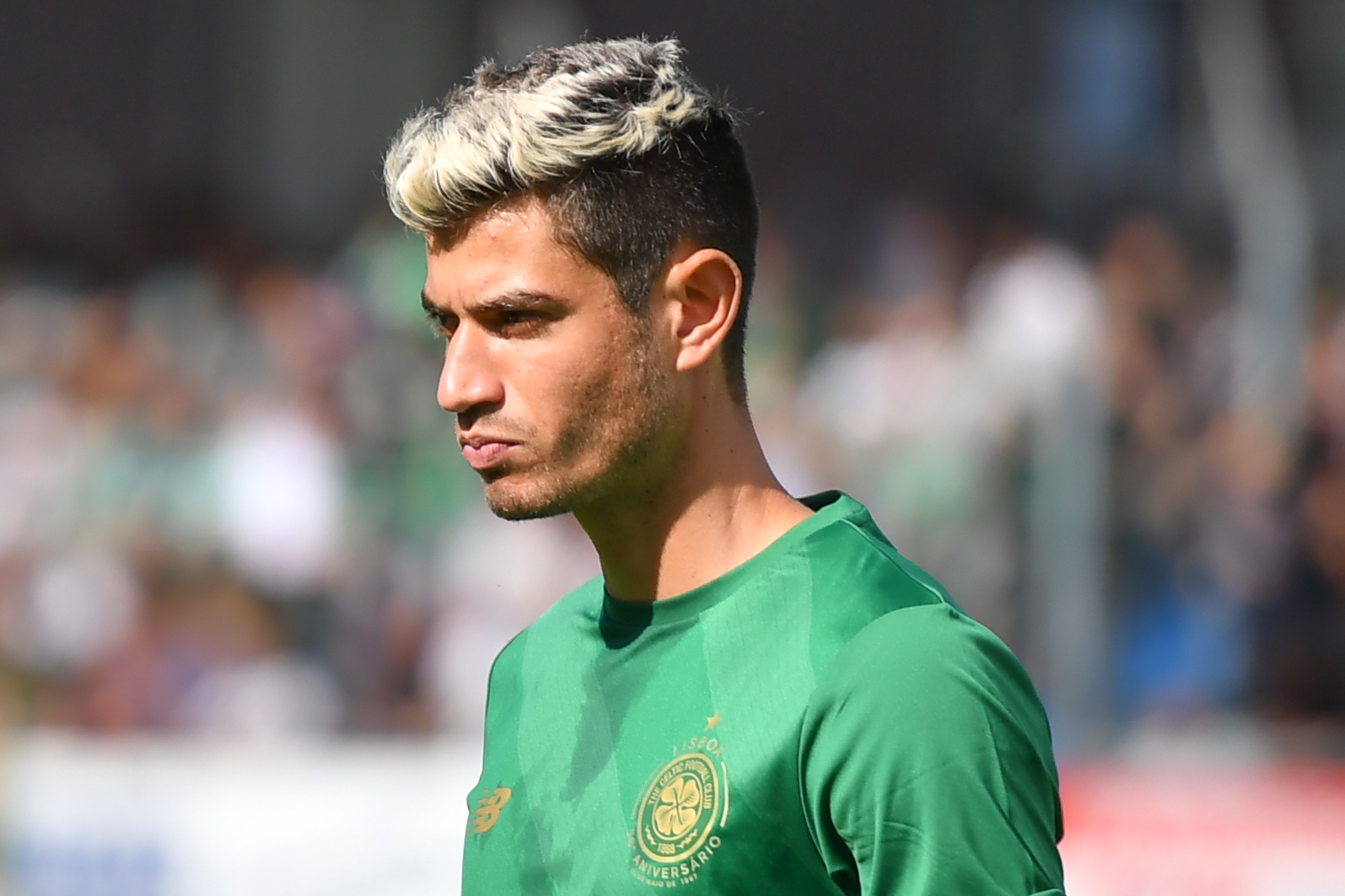 1/7/2017, Amstetten, Austria, sports, soccer, Tipico Fussball Bundesliga - preparation match SK Rapid Wien vs Celtic Glasgow. Image shows Nir Bitton (Celtic FC).